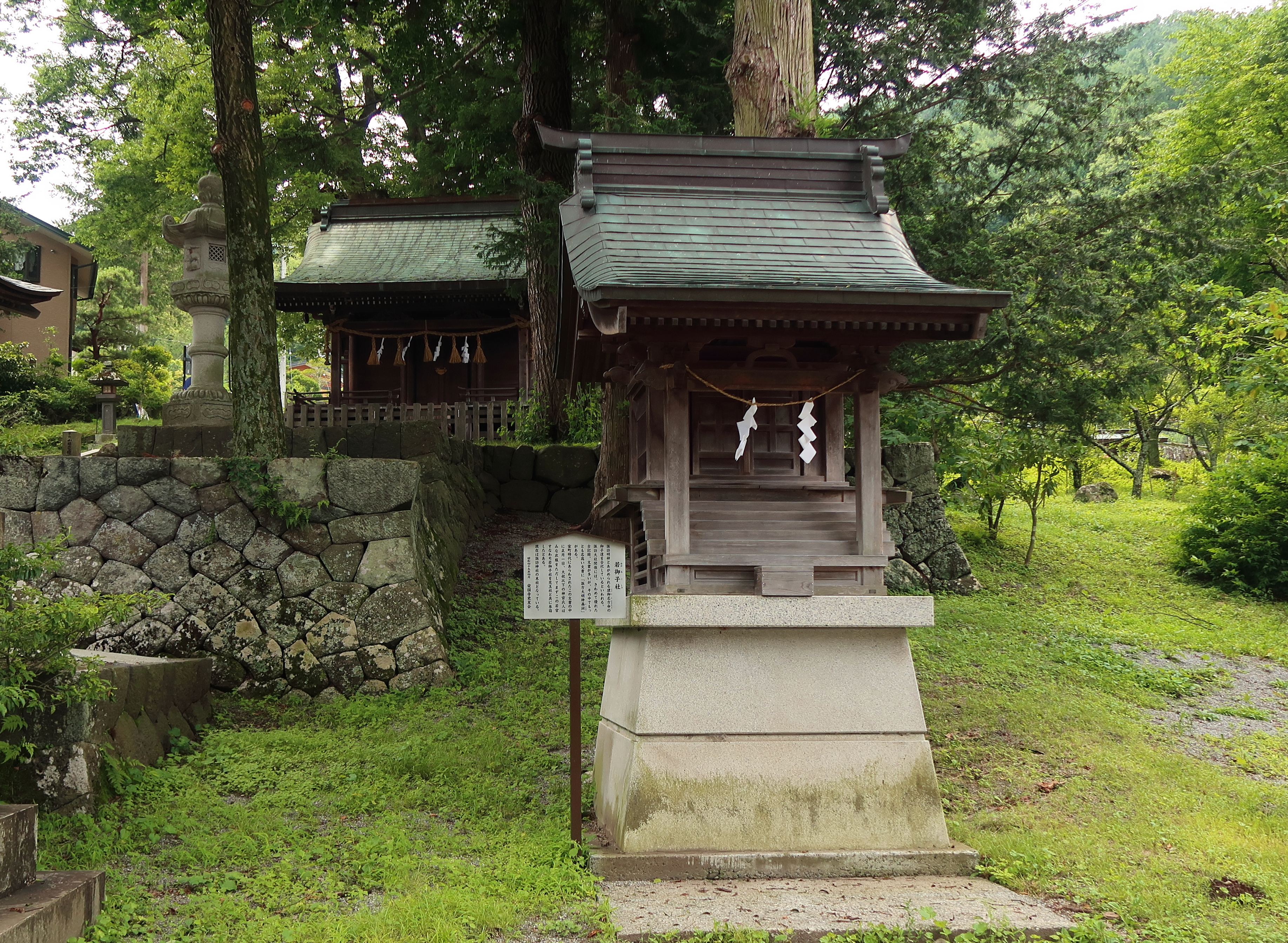 Wakamiko Shrine (若御子社) inside the precincts of the Kamisha Maemiya (Chino, Nagano)